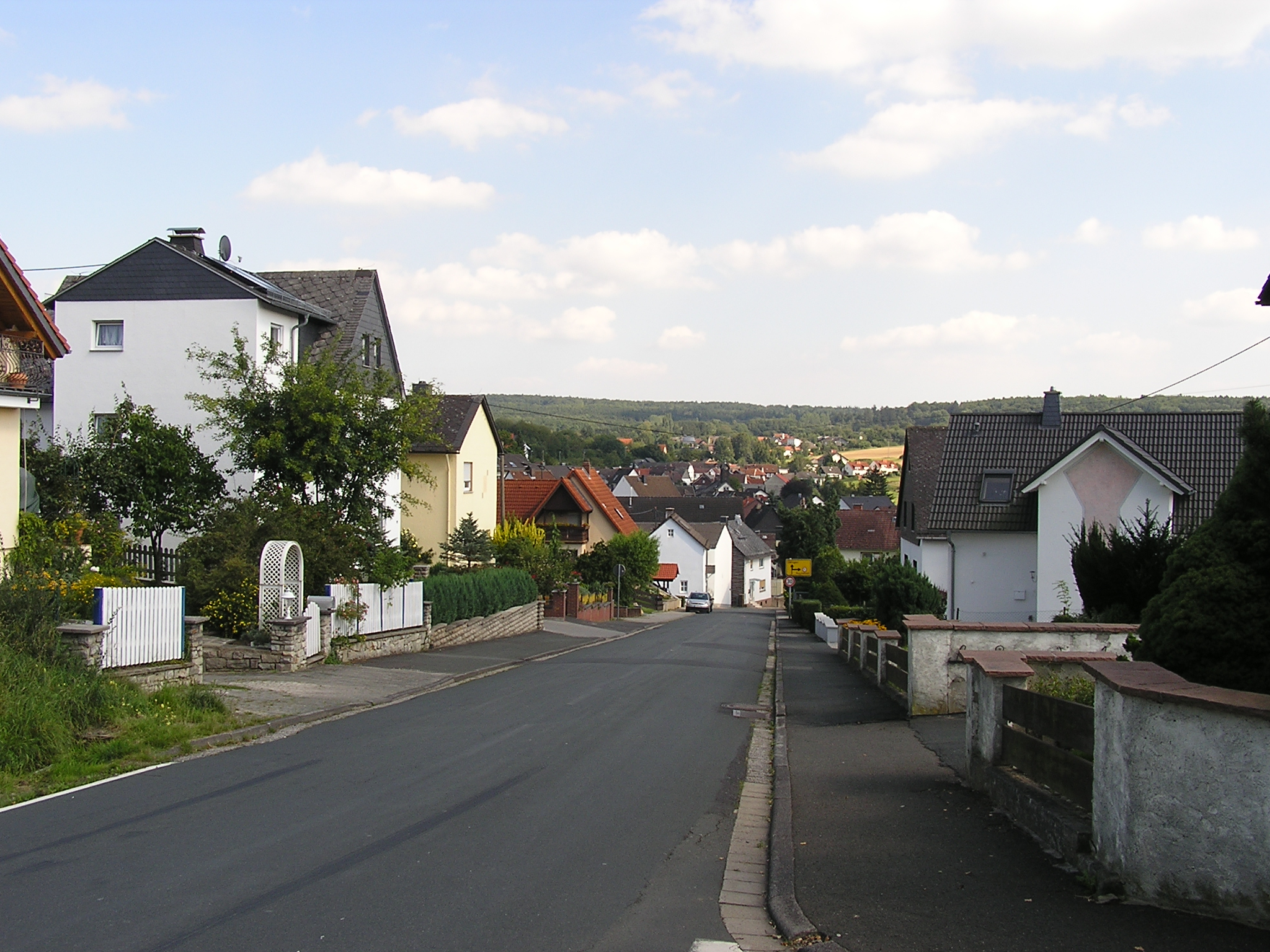 View over Hundstadt, a district of Grävenwiesbach, from west